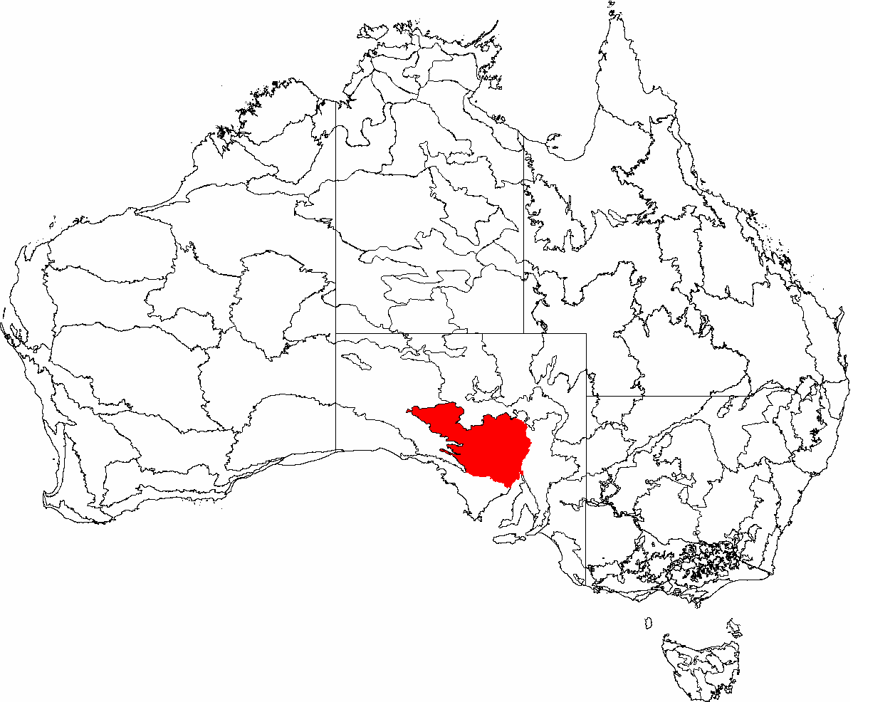 This is a map of the Interim Biogeographic Regionalisation of Australia (IBRA), with state boundaries overlaid. The Gawler region is shown in red.